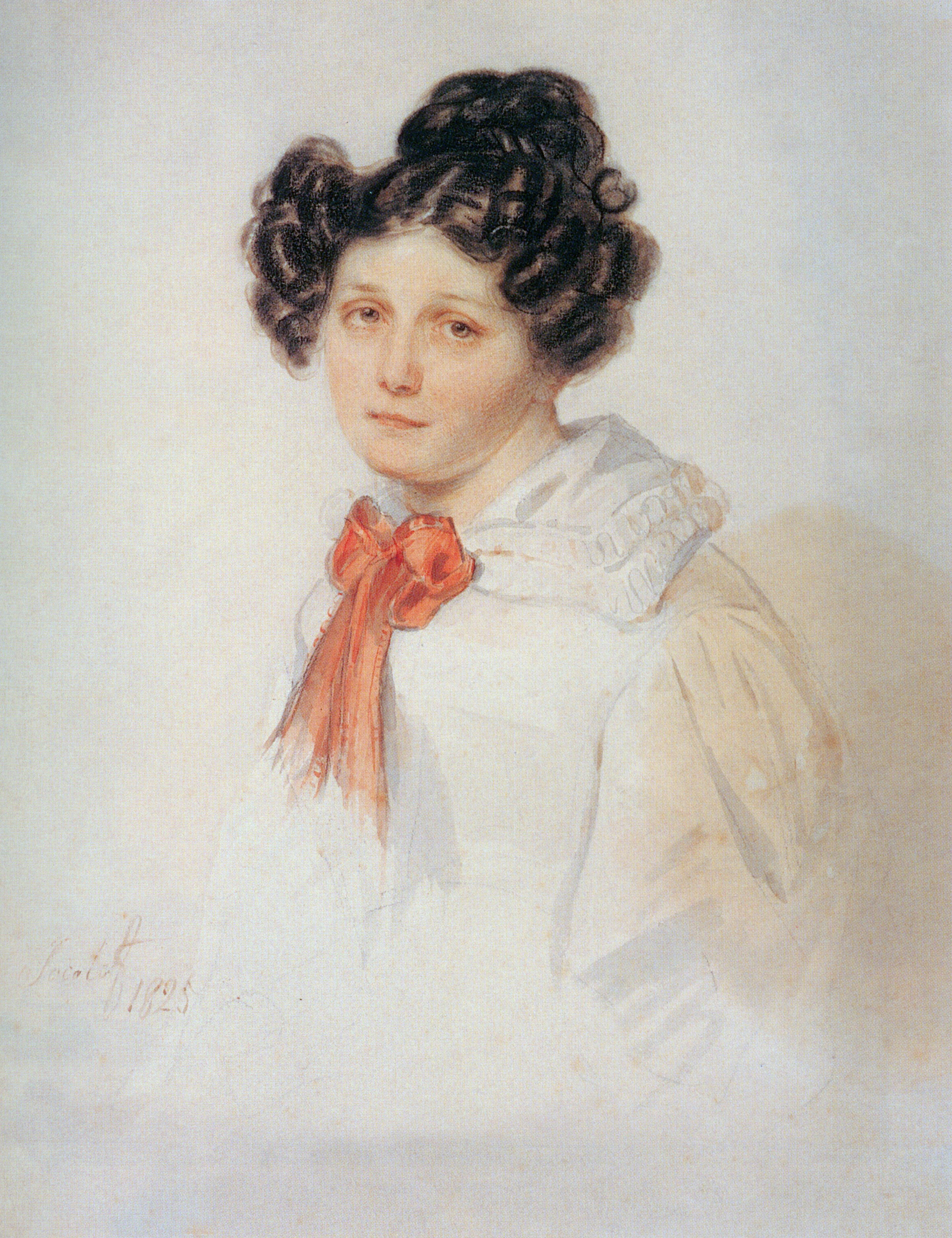 Polina Annenkova (1800-1876)